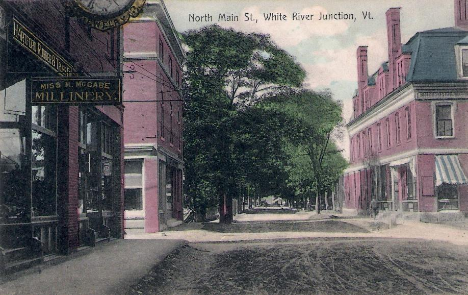 North Main Street, White River Junction, Vermont; from a c. 1910 postcard published by the Green Mountain Card Company, White River Junction, Vermont.